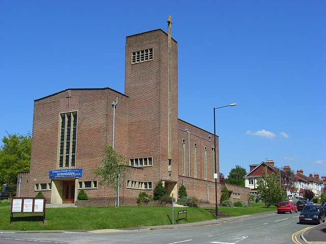 St Francis' parish church, Castle Road, Salisbury, Wiltshire, seen from the southwest. The church was founded in 1930 when the surrounding residential area grew. The original building was a temporary wooden one on Stratford Road. This new building was started in 1936 and consecrated in 1940.